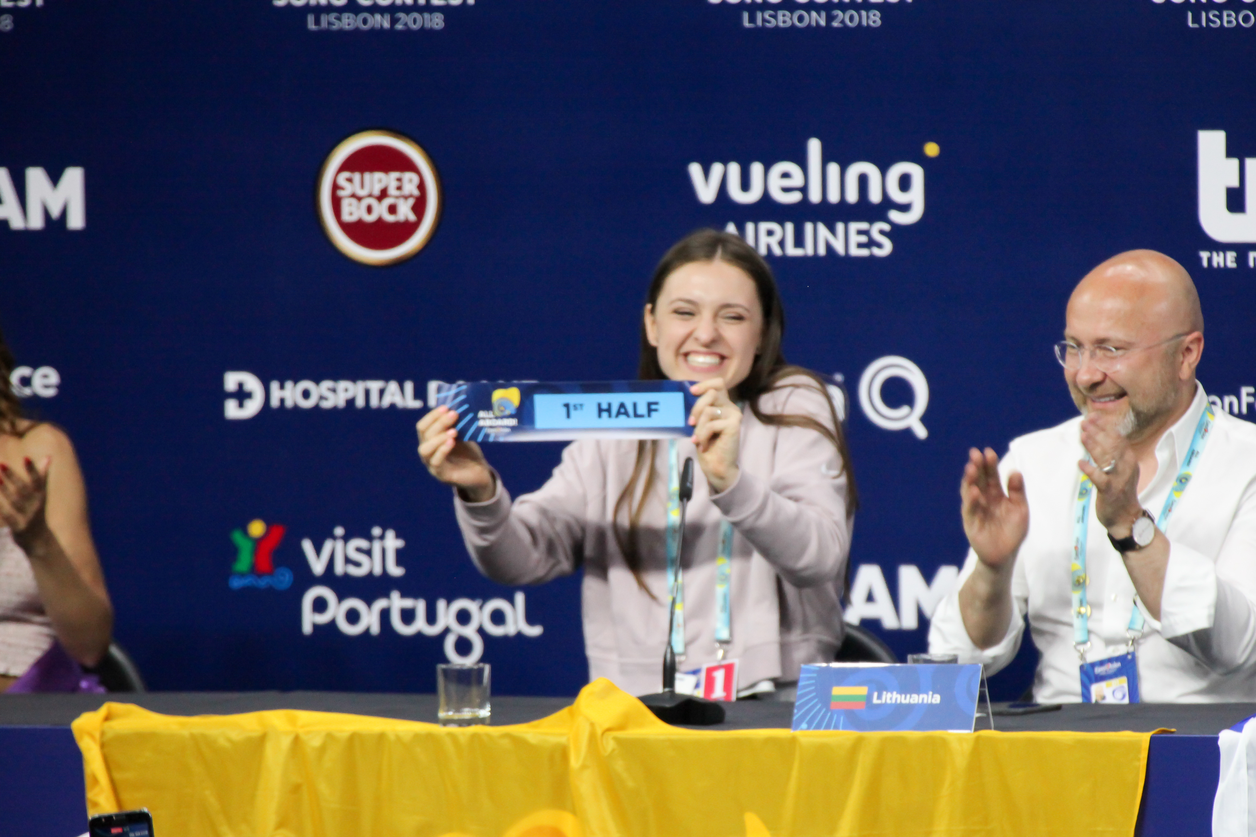 At the 2018 Grand Final allocation draw